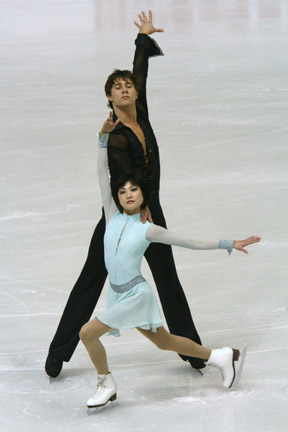 Yuko KAWAGUCHI and Alexander SMIRNOV. European Championships 2008